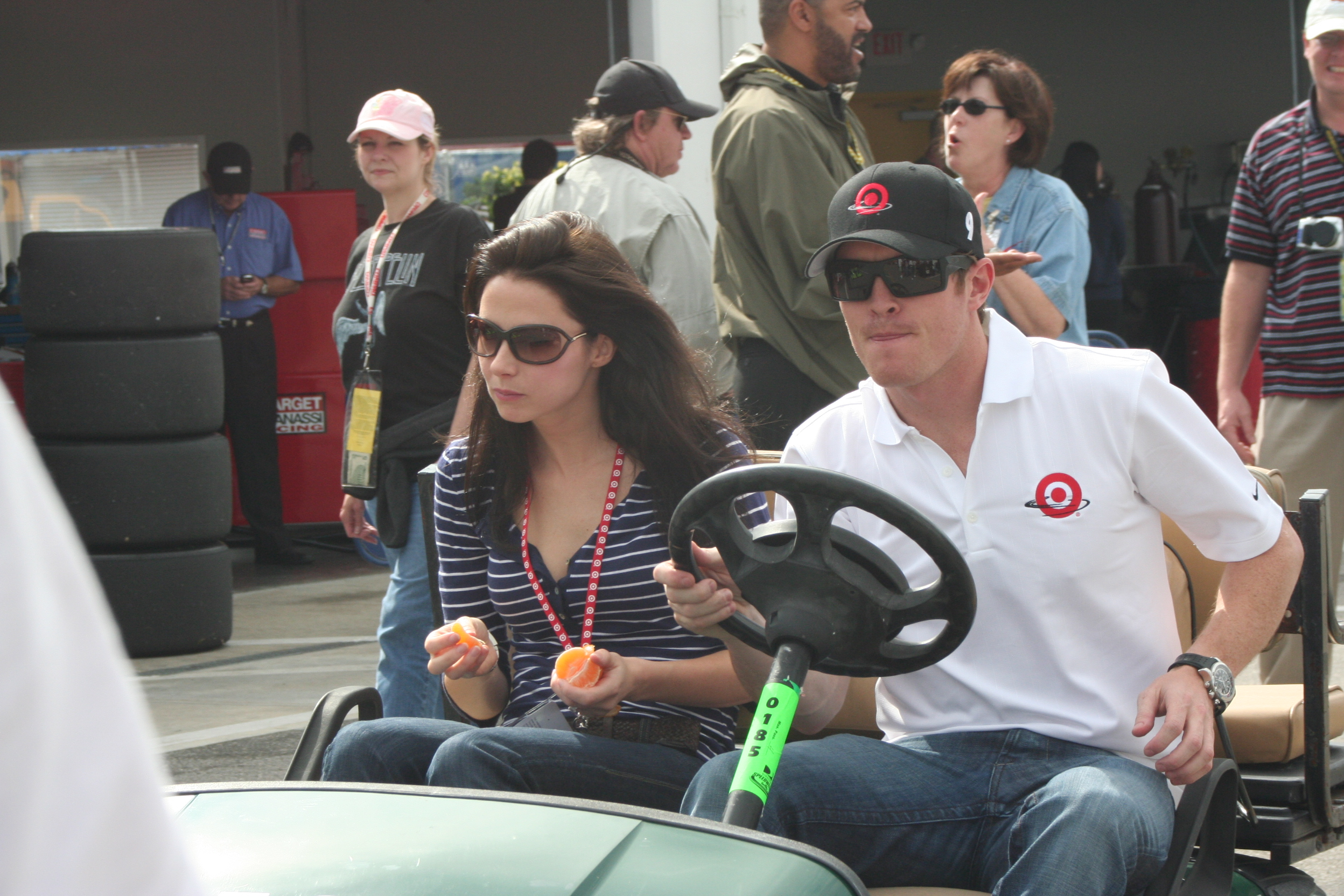 Racecar driver Scott Dixon and his fiance Emma Davies, shot by The Daredevil at the 2008 Rolex w:24 Hours of Daytona event